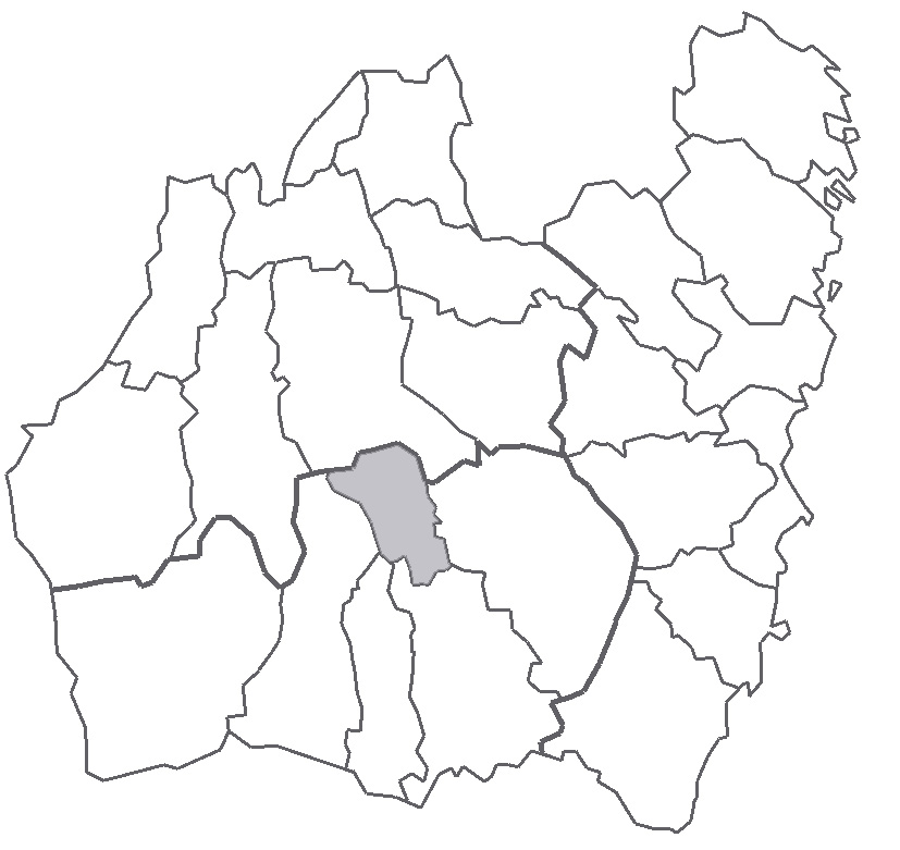 Map describing the location of Norrvidinge Hundred in the province of Småland, Sweden.